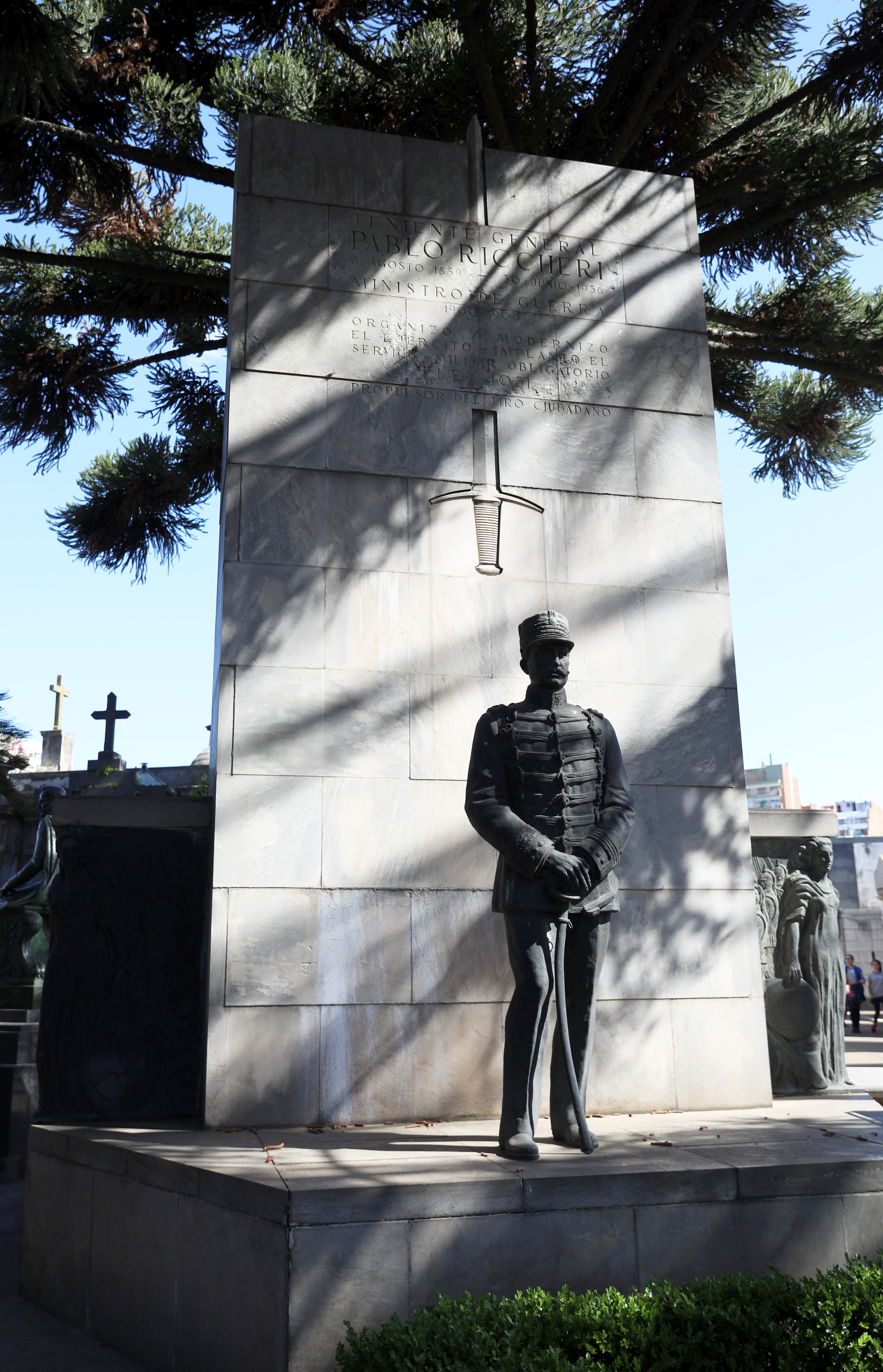 Cementerio de la Recoleta, Buenos Aires, Argentina